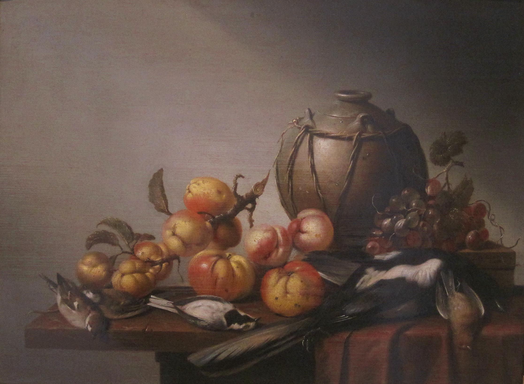 Still life Harmen Steenwijck (Harmen van Steenwyck).